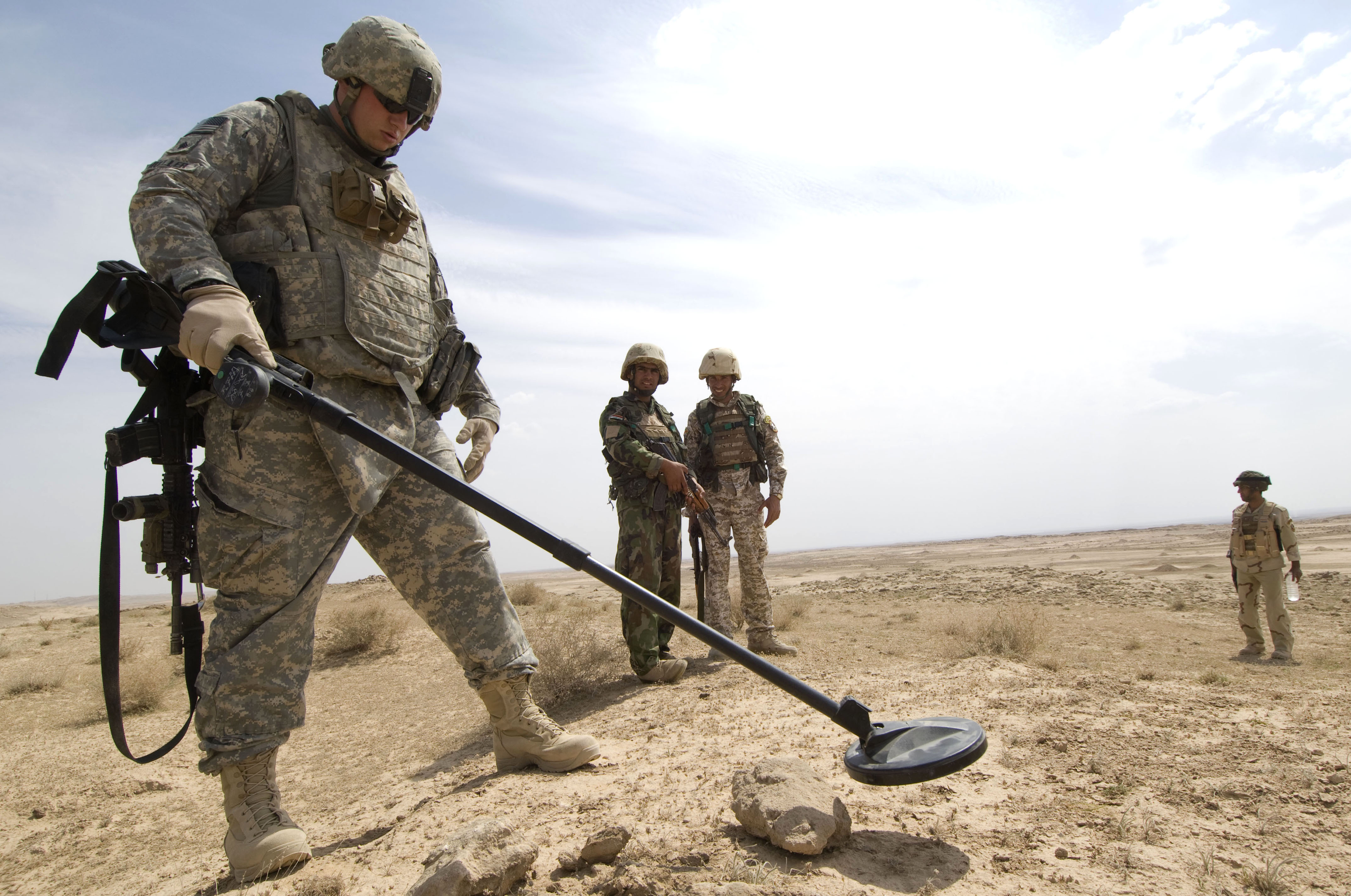 U.S. Army Sgt. Brian Mueller, 1st Battalion, 24th Infantry Regiment, 1st Stryker Brigade Combat Team, 25th Infantry Division, checks a suspicious rock pile with a metal detector during a presence patrol in the area around Albu Sawwat, Iraq, on April 3. See more at Army.mil